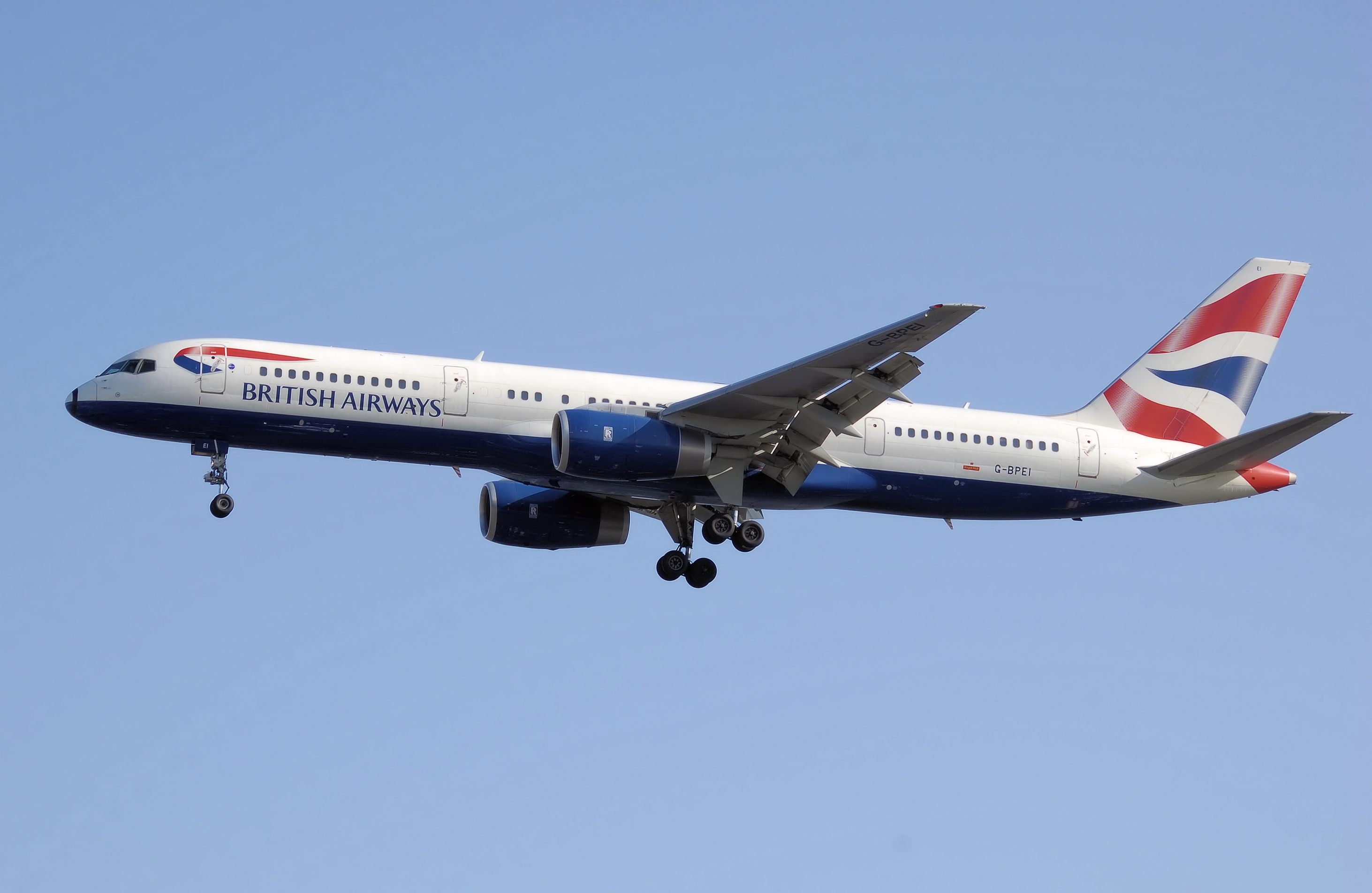 British Airways Boeing 757-200 (G-BPEI) lands at London Heathrow Airport, England. APOLGIES FOR THE INCORRECT FILENAME, IT IS IN FACT LANDING.